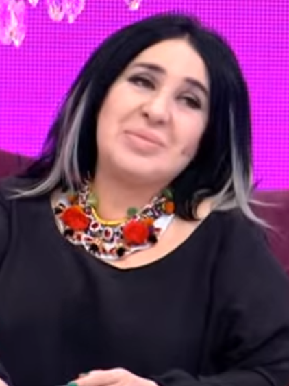 Turkish fashion designer Nur Yerlitaş during a TV-show called İşte Benim Stilim.